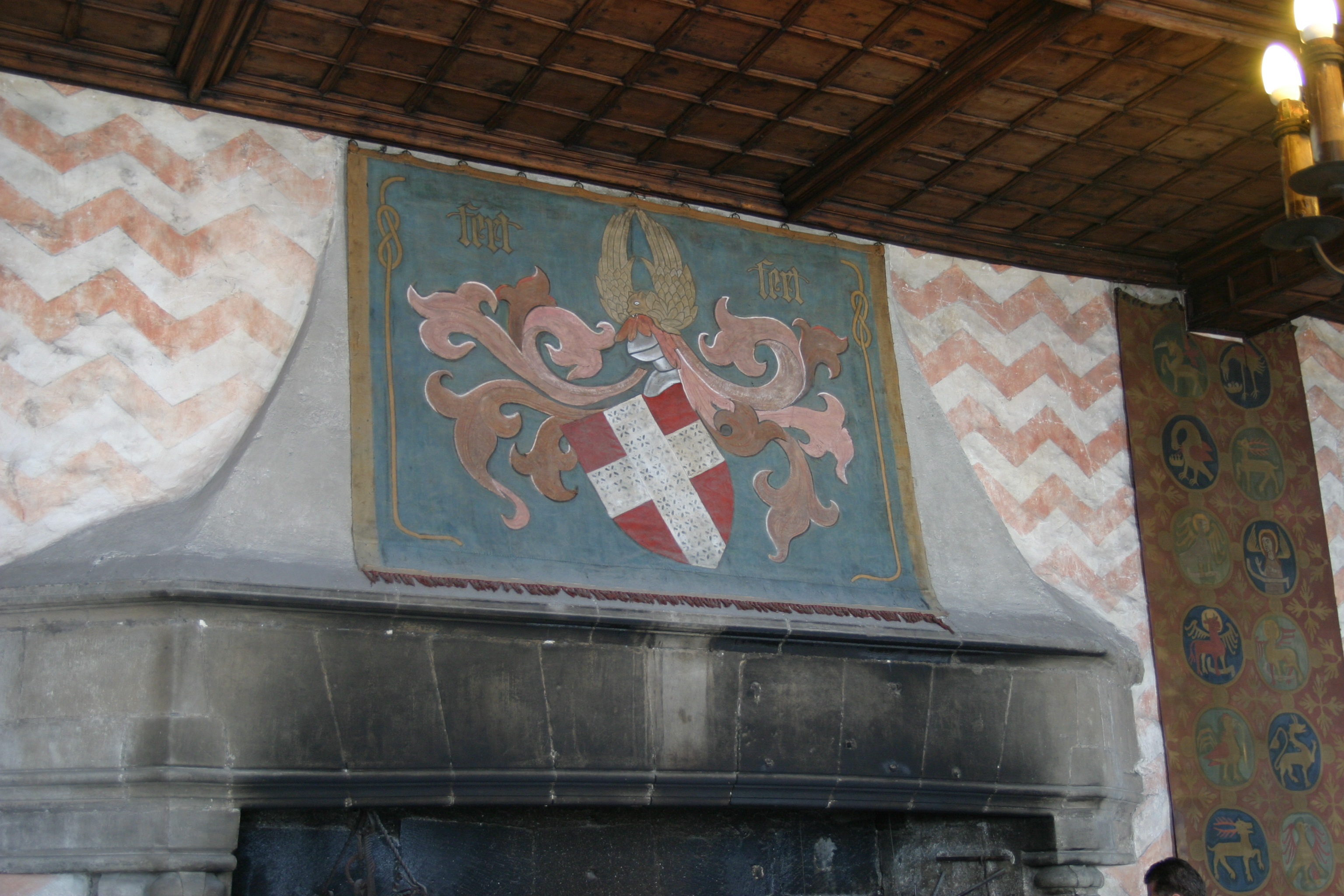 Castel of Chillon